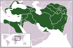 This is a remake of a an old file that shows the really true extent of the Achaemenid Empire.